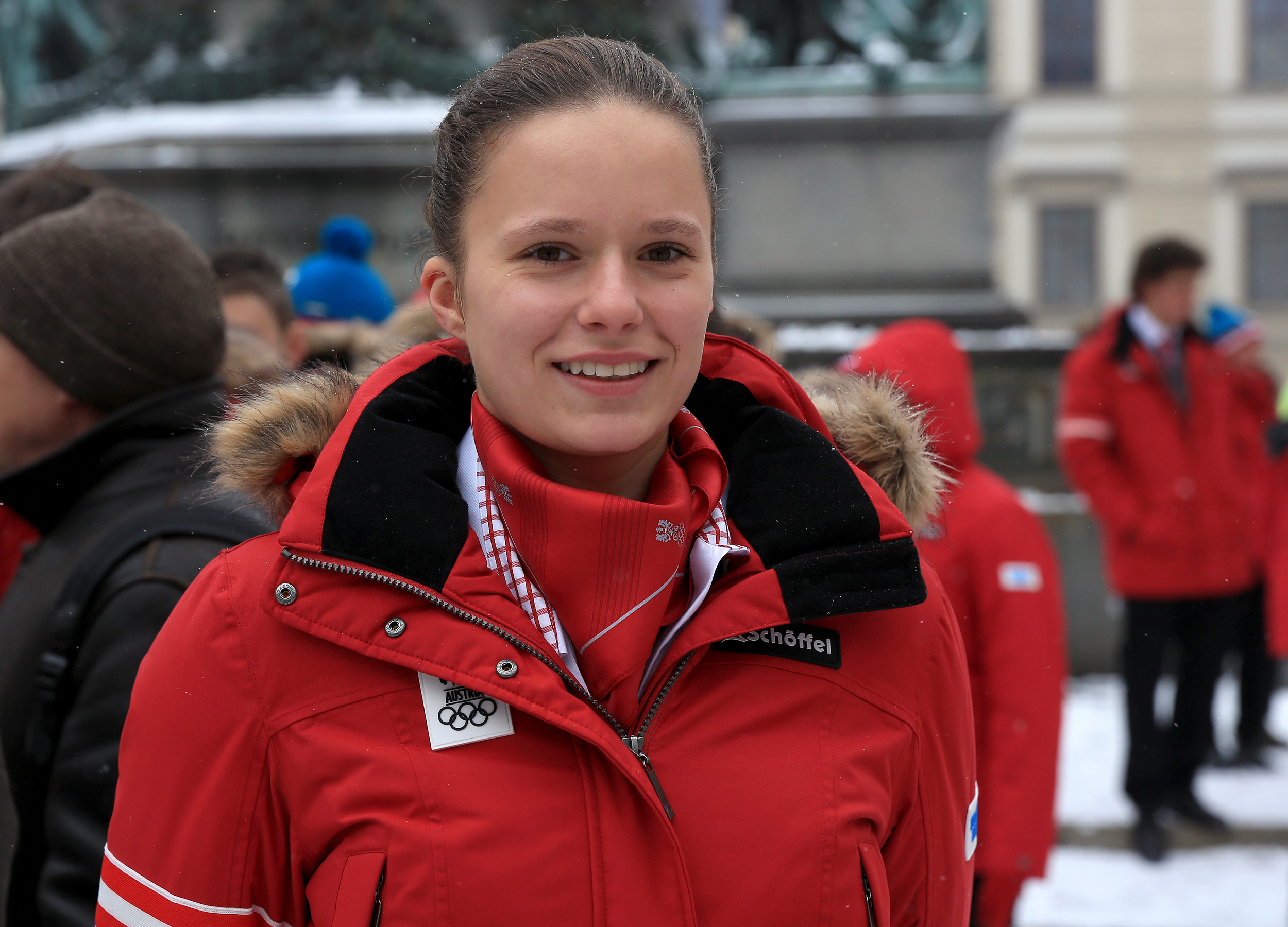 Athletes of the Austrian team for the 2014 Winter Olympics - speed skating: Vanessa Bittnera before the reception by Federal President Heinz Fischer at Hofburg Palace in Vienna, Austria.